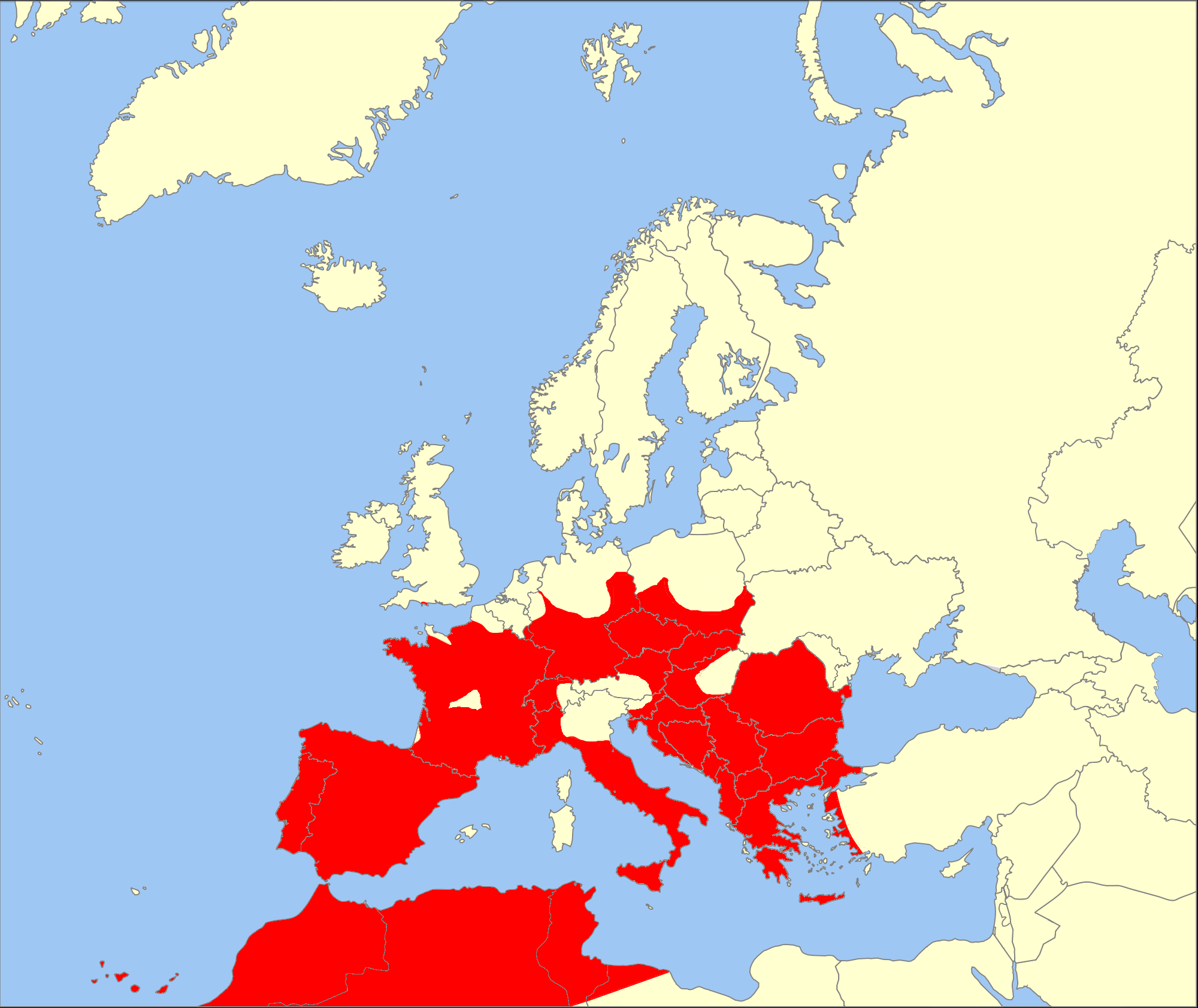 A map of Europe illustrating the range of the Lulworth Skipper (Thymelicus acteon) butterfly, based on two separate sources.